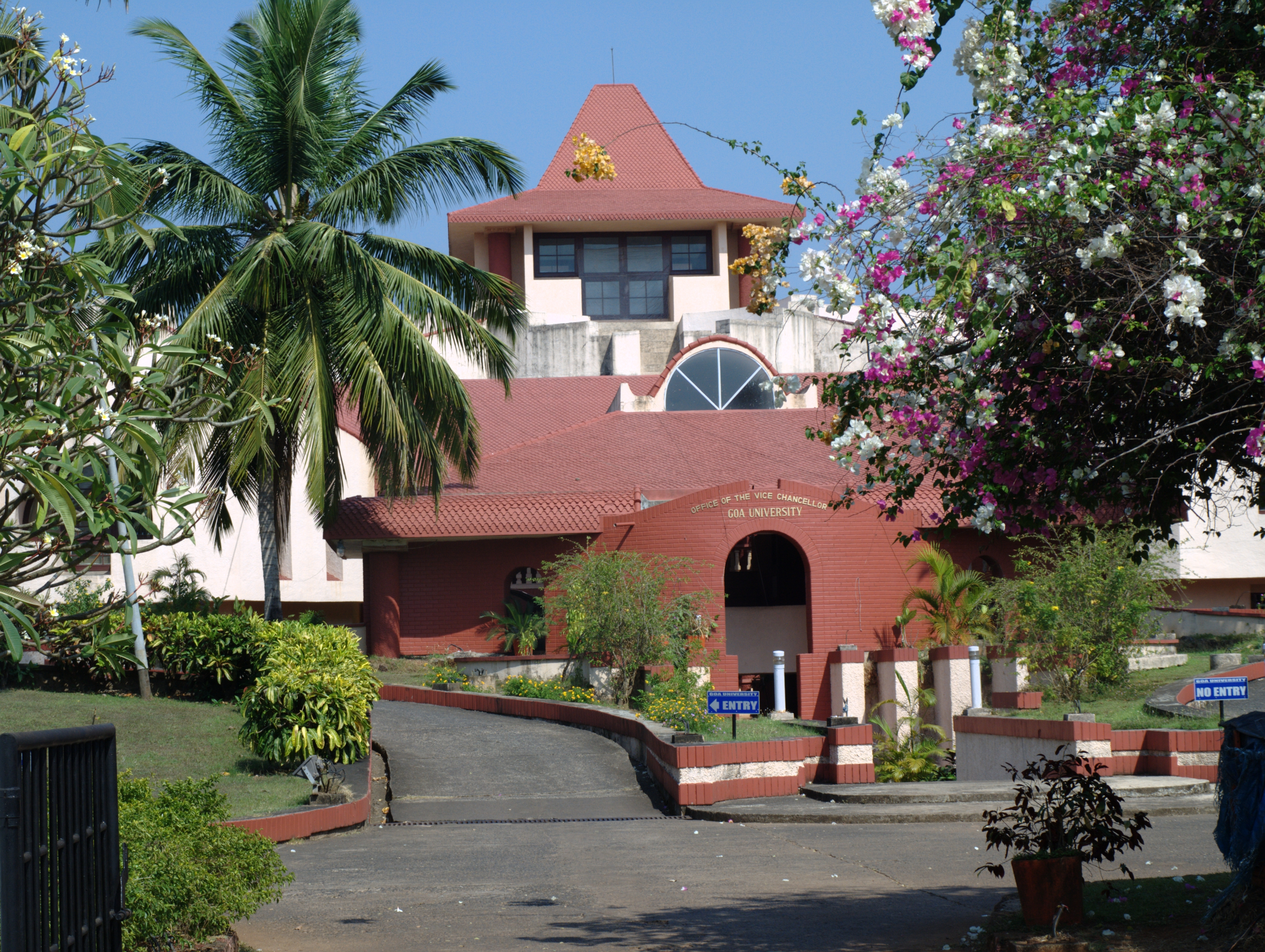 Goa University, Goa